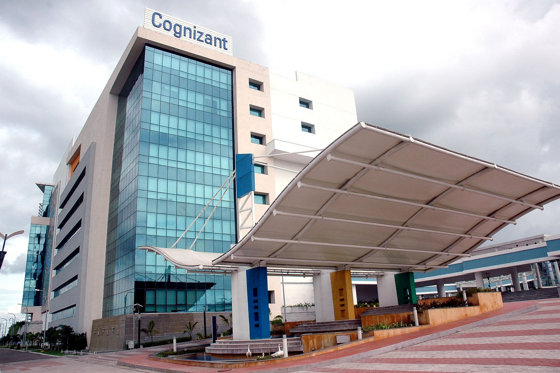 Cognizant's Delivery Center in Kolkata - Bantala